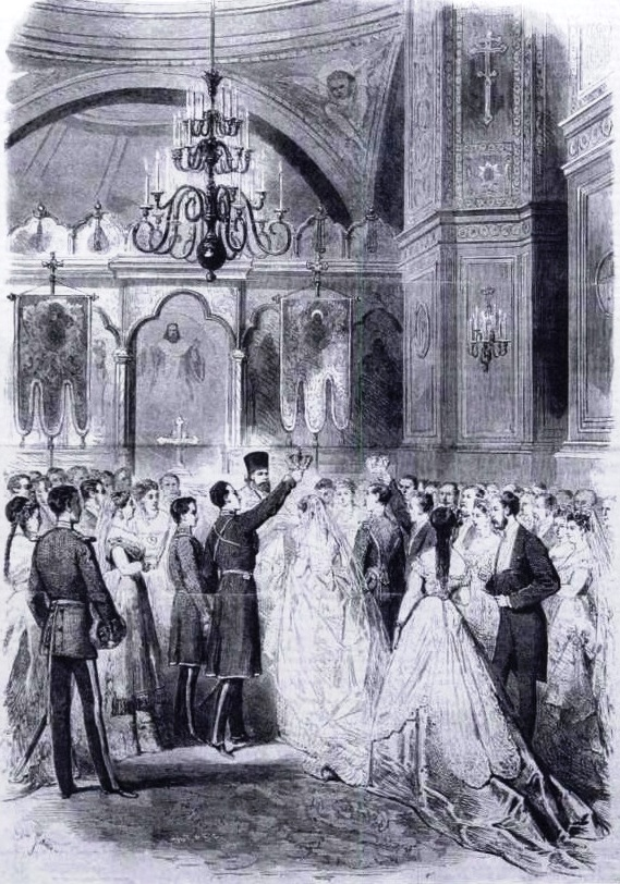 Marriage of Prince Achille Murat and Princess Salome Dadiani of Mingrelia in a Russian church in Paris on 13 May 1868.